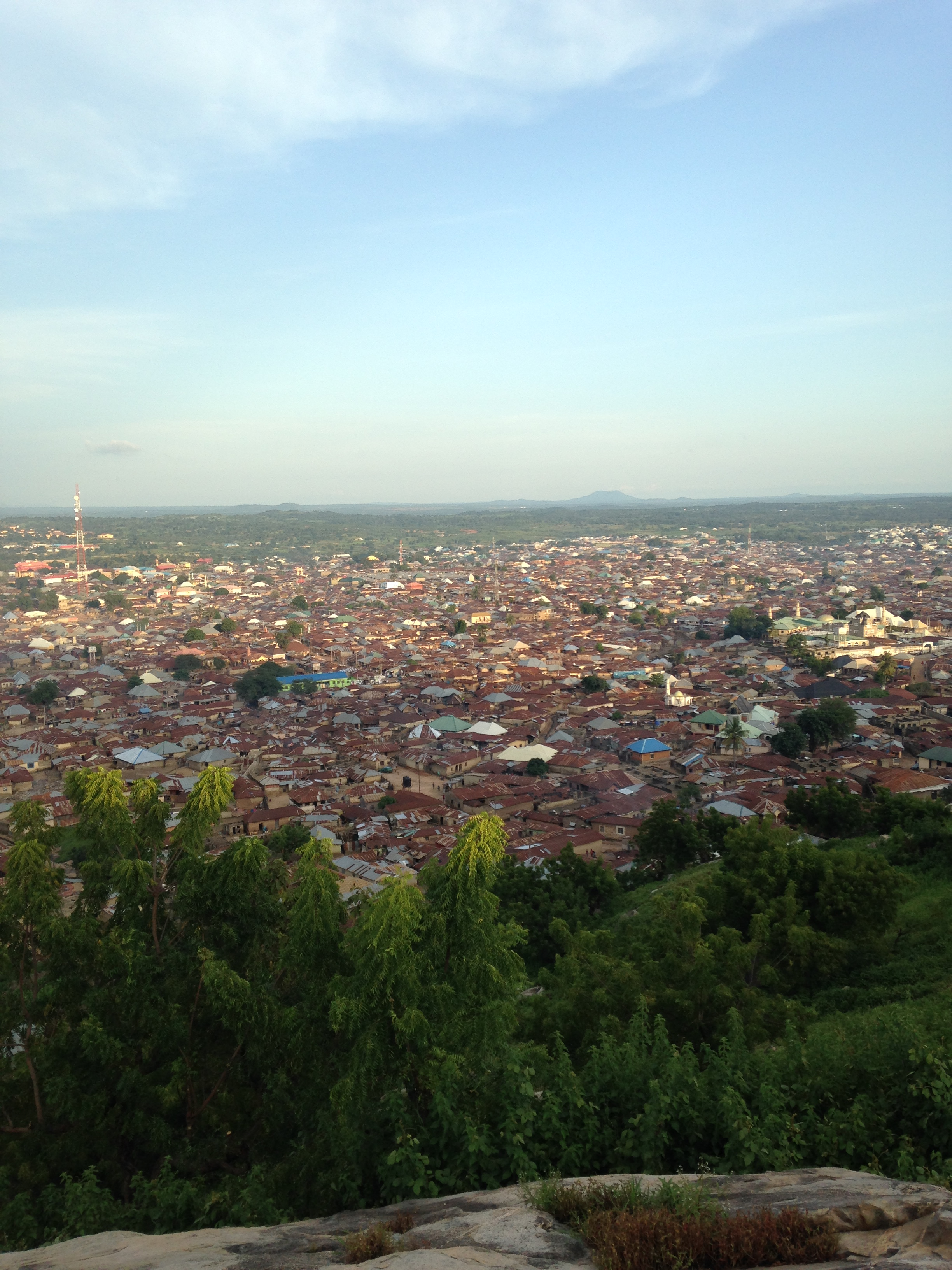 A picture of Keffi town taken from the top of Maloney Hills